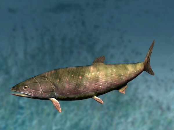 Furo